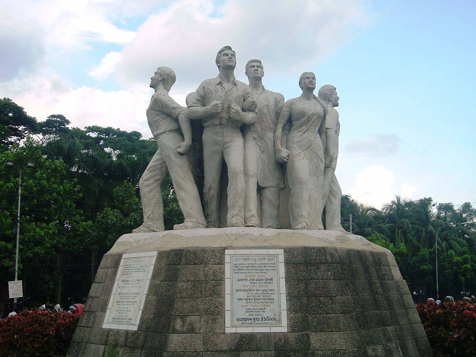 Anti Terrorism Raju Memorial Sculpture, at TSC - Dhaka University Campus.